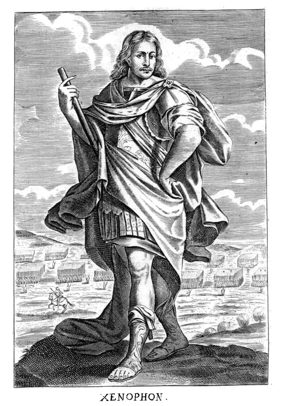 Xenophon, ancient Greek historian. From Thomas Stanley, (1655), The history of philosophy: containing the lives, opinions, actions and Discourses of the Philosophers of every Sect, illustrated with effigies of divers of them.